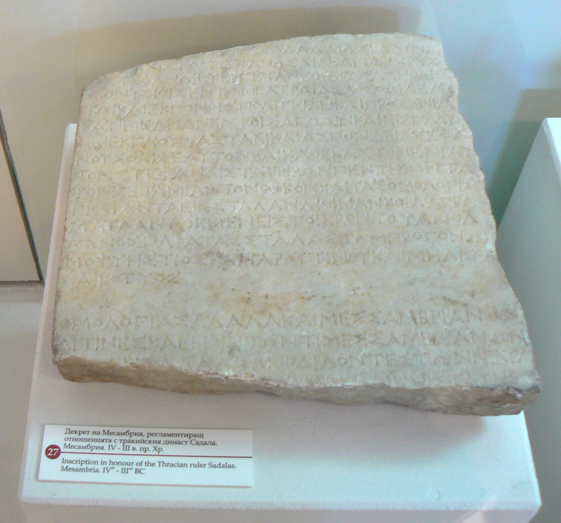 Stone cut decree from Mesembria, regulating the relations with the Thracian ruler Sadalas, 4-3 century BC. Burgas Archeology Meseum